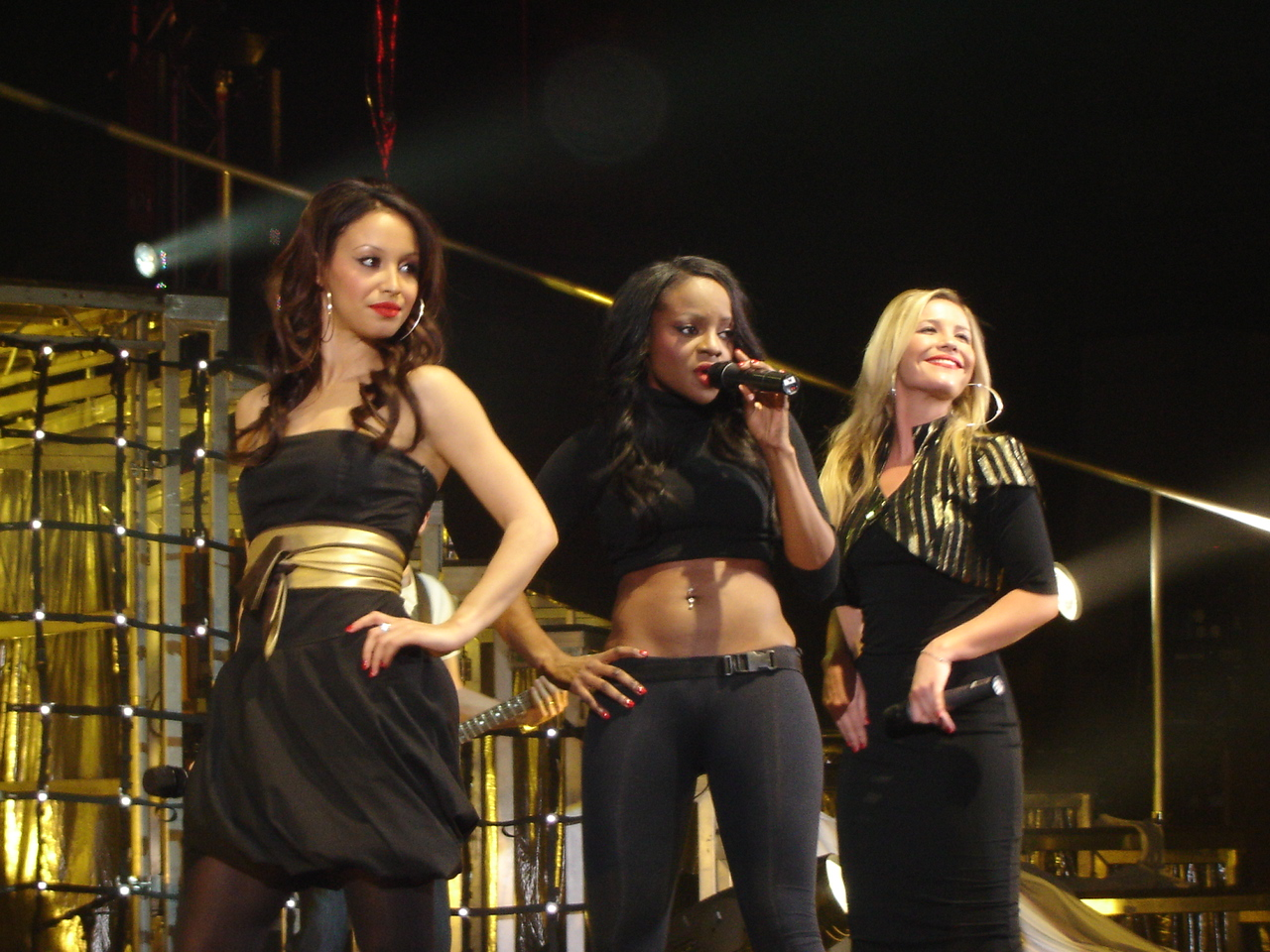 Sugababes at the Hammersmith Apollo